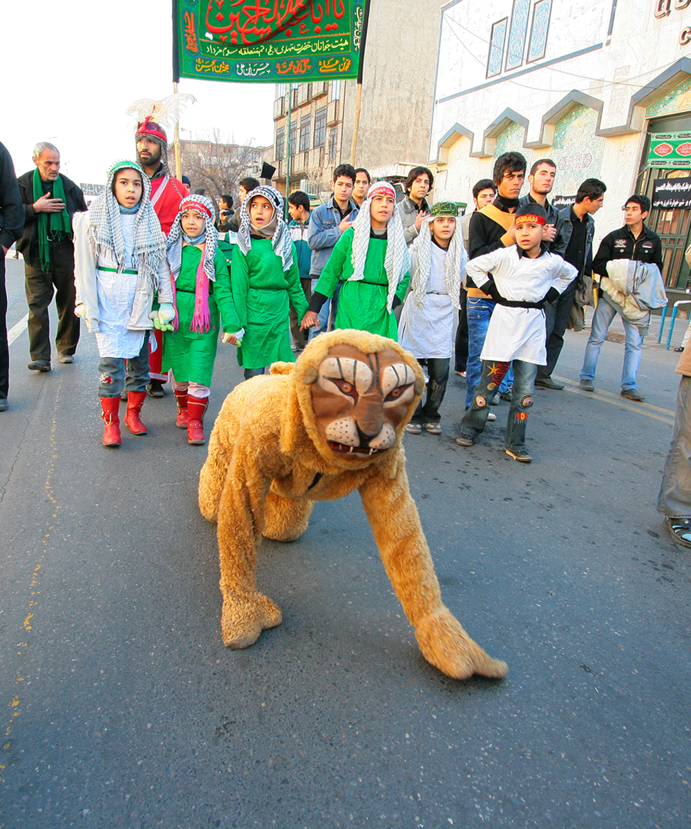 Mourning of Muharram